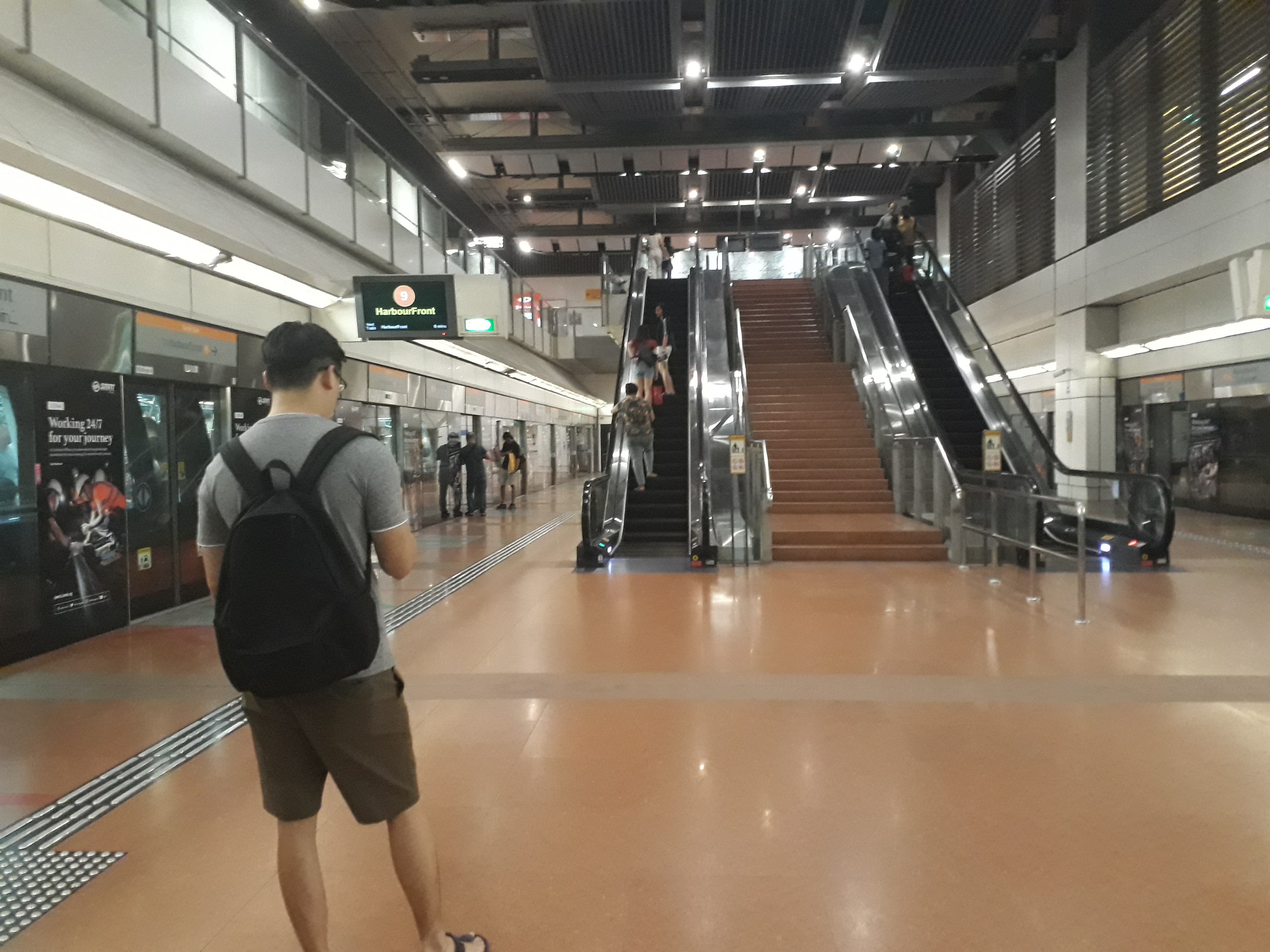 Marymount MRT